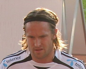 Norwegian footballer (soccer) Thorstein Helstad.